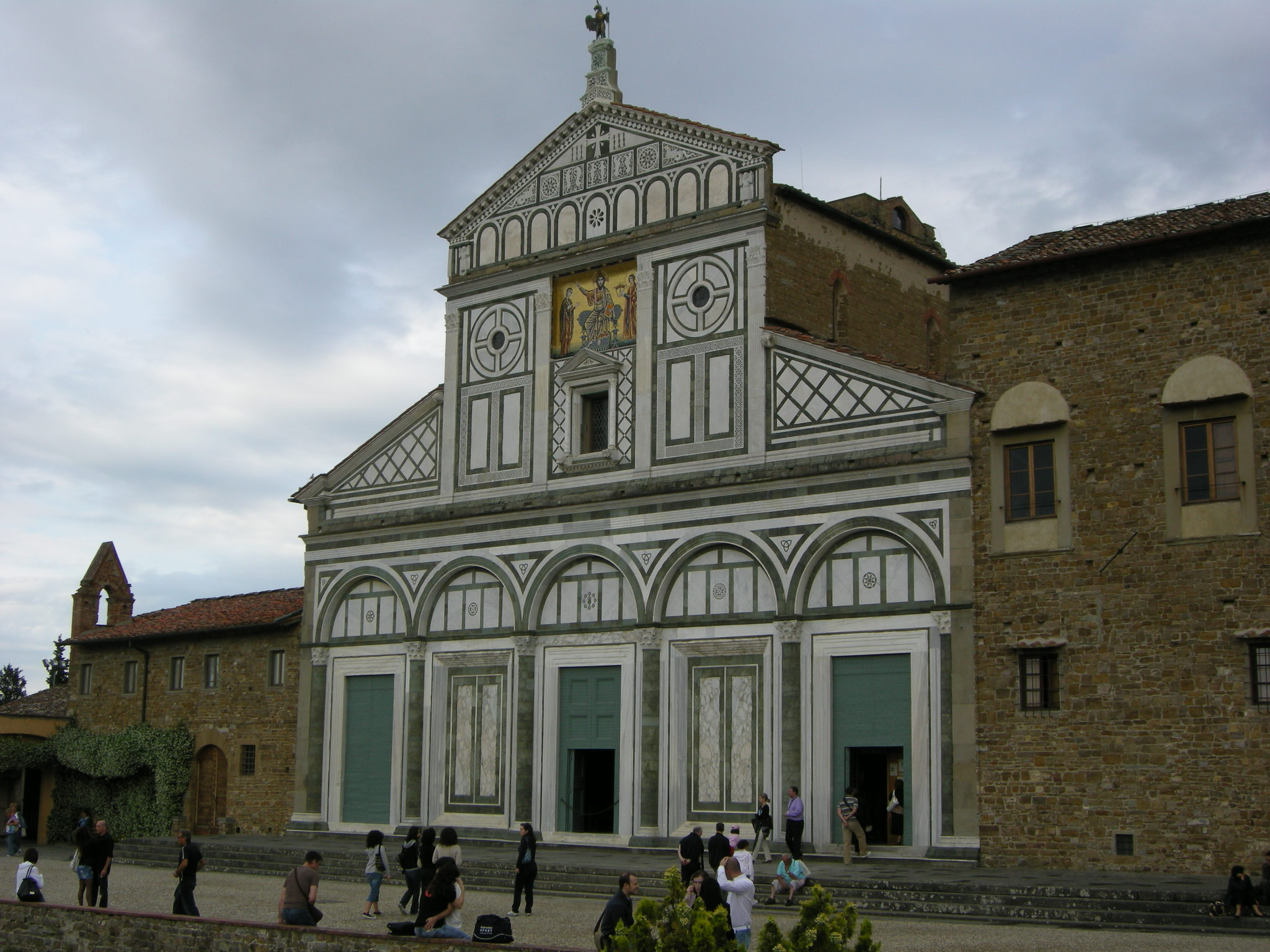 Basilica San Miniato al Monte, Florence